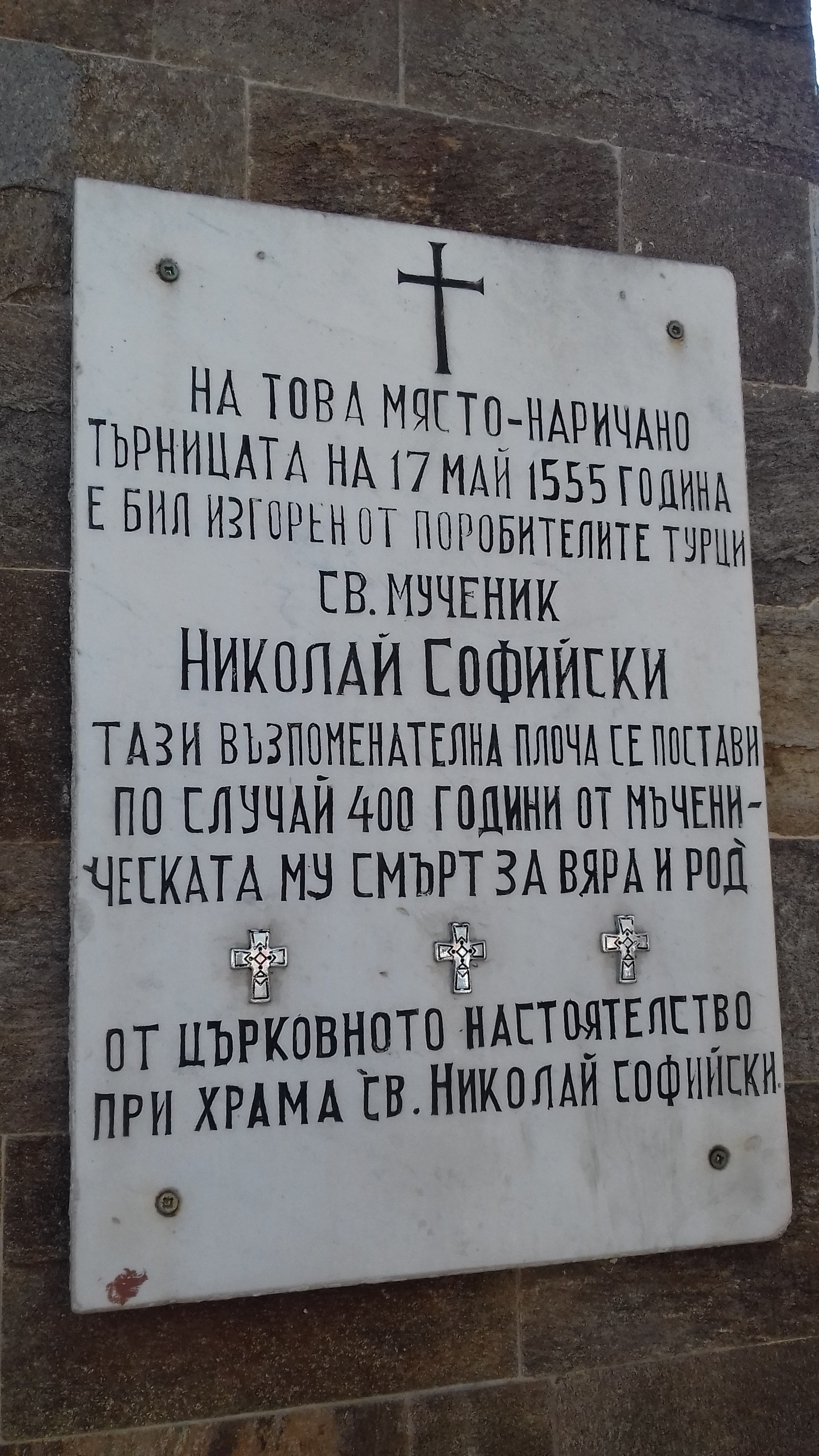 Plaque in Saint Nicholas of Sofia the New Chapel in Sofia